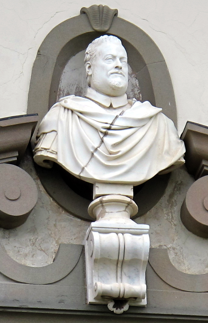 Medici Villa of Artimino